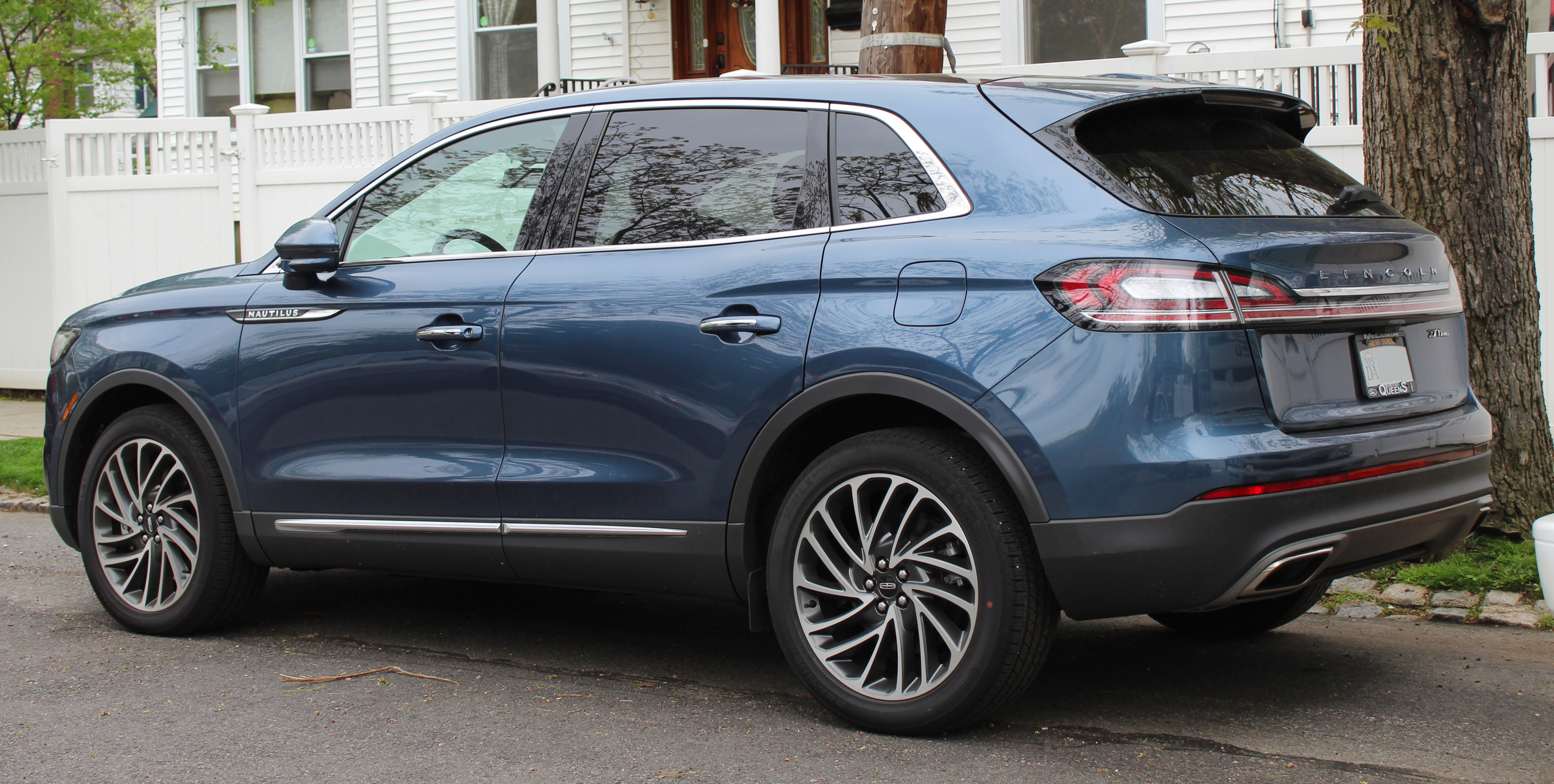 A 2019 Lincoln Nautilus photographed in Queens, New York, USA